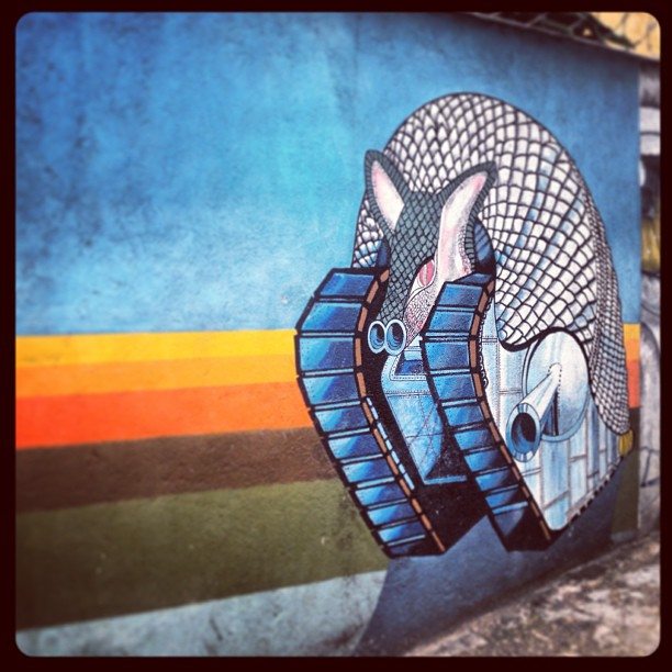 Mural Art of Tarkus, a figure according to an album by Emerson Lake and Palmer